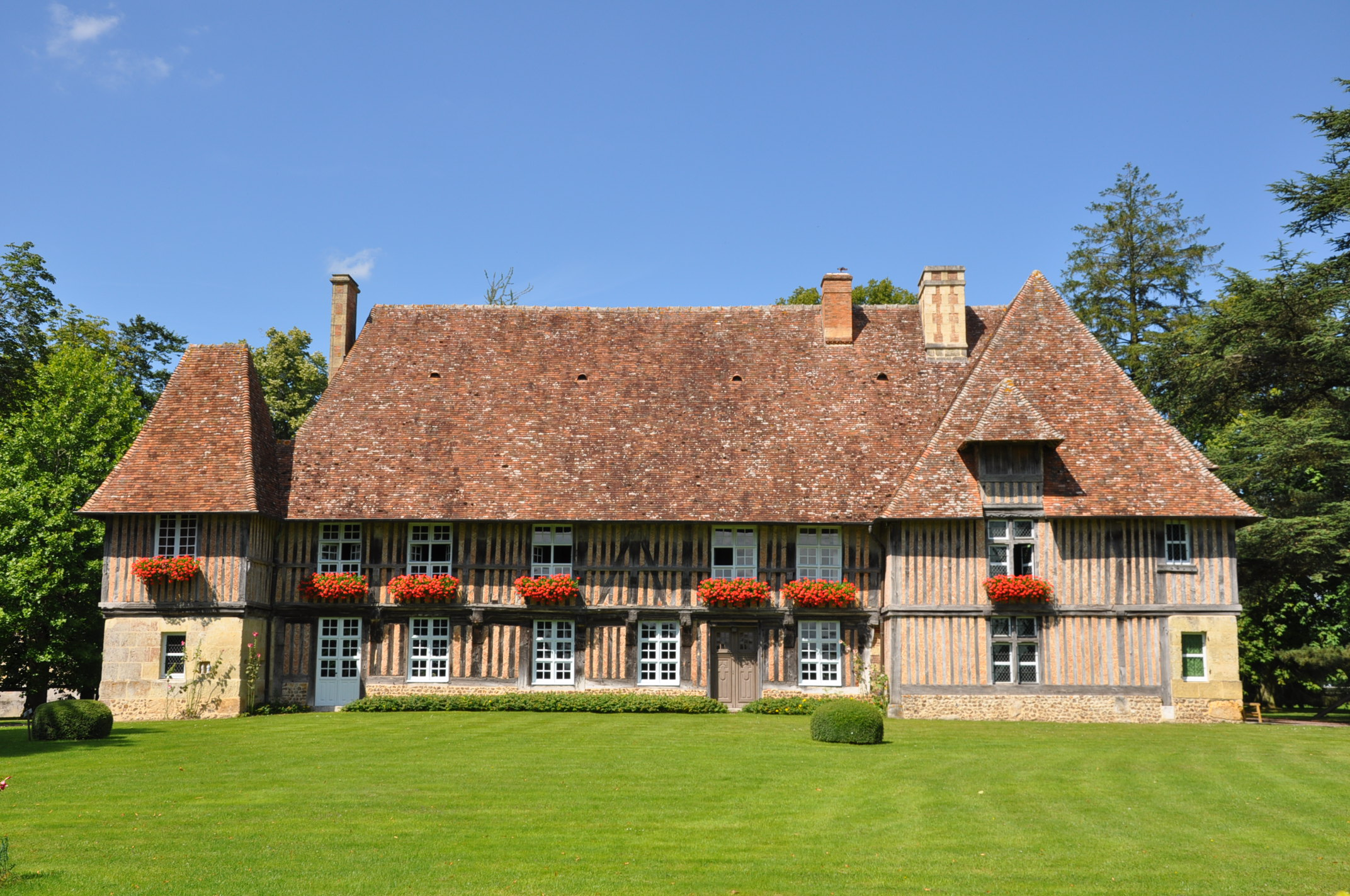 Bellou Manor is a listed historical building (Bellou, Calvados department, Lower Normandy, France).